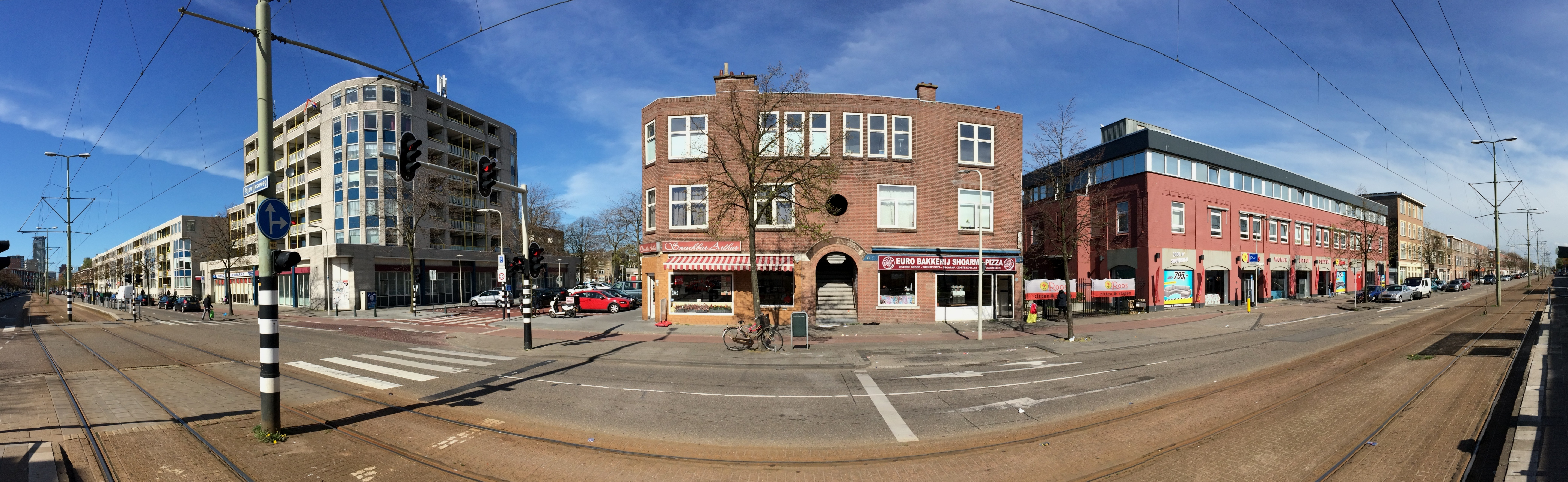 The Rijswijkseweg ("Rijswijk Road") in The Hague (Netherlands).